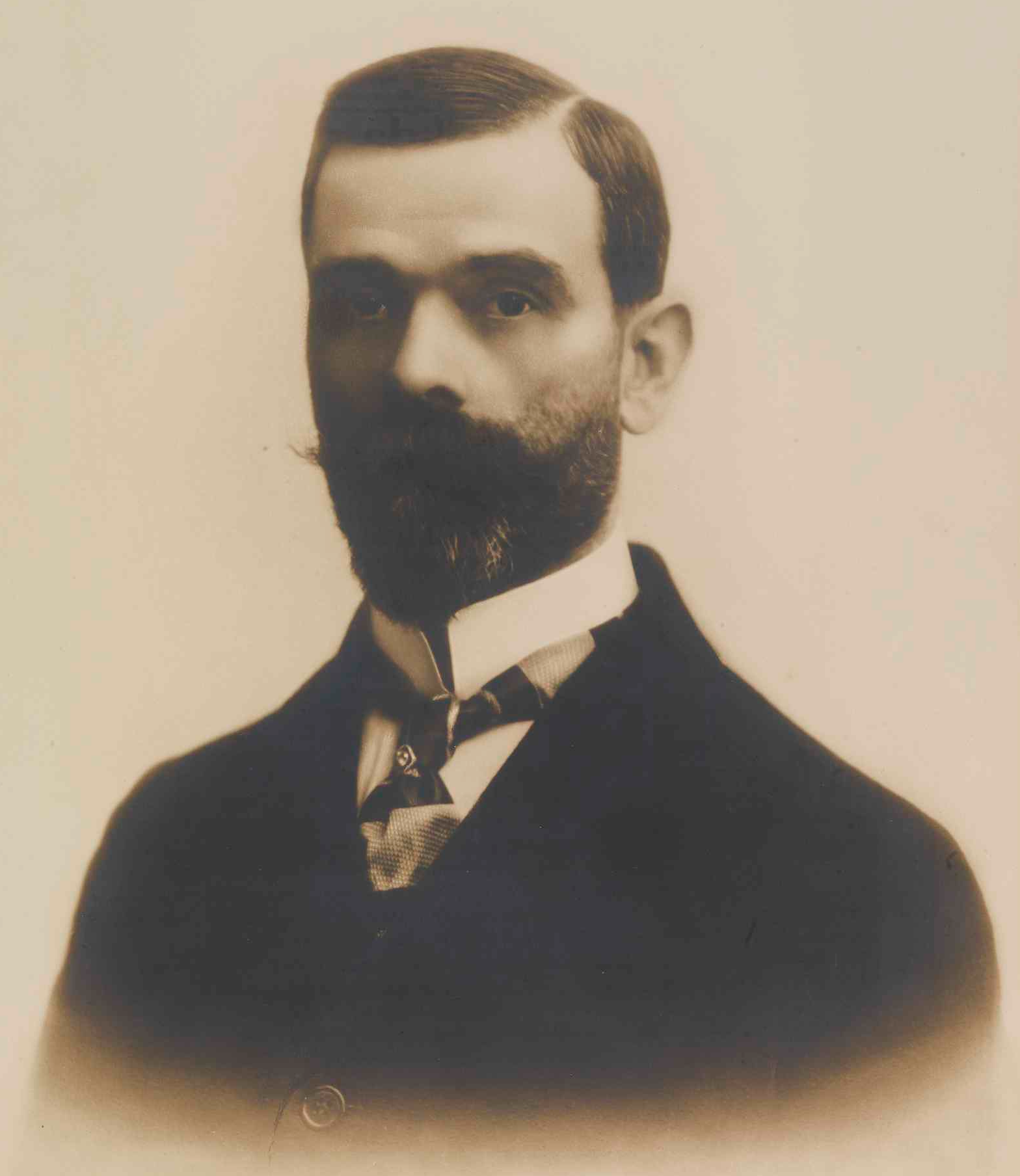 Eusébio Leão (1864-1926), a Portuguese physician and Republican politician.